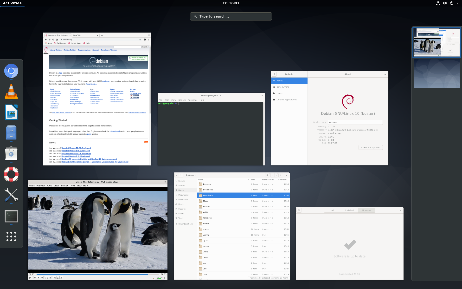 Screenshot of Debian 10 (buster) with GNOME desktop environment running a couple of free software applications